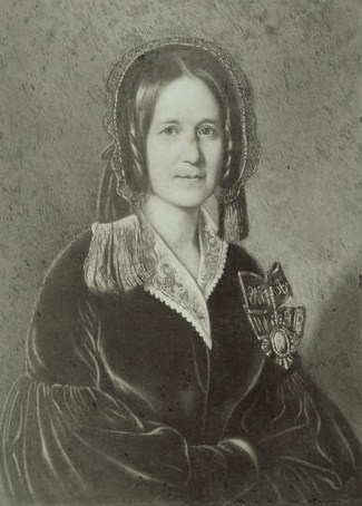 Kreutz, Caroline von, geb. Baroness von Offenberg